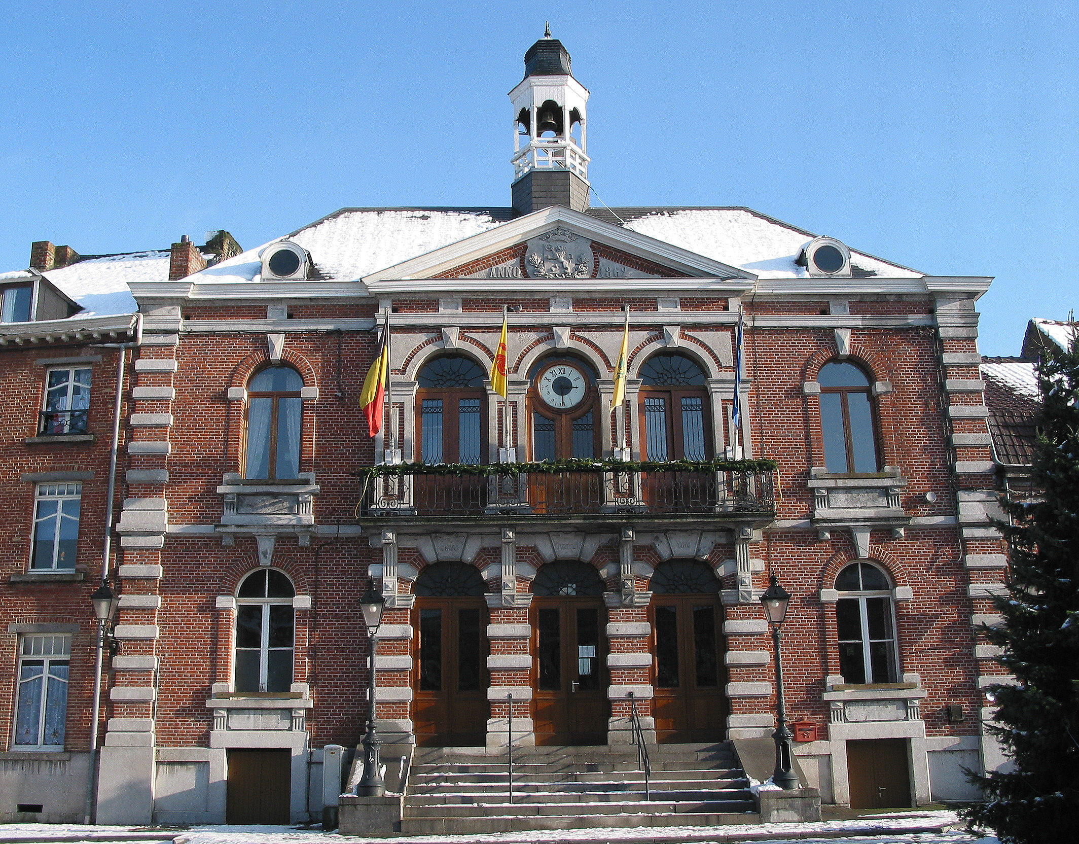 Le Roeulx (Belgium), the town hall (1862).